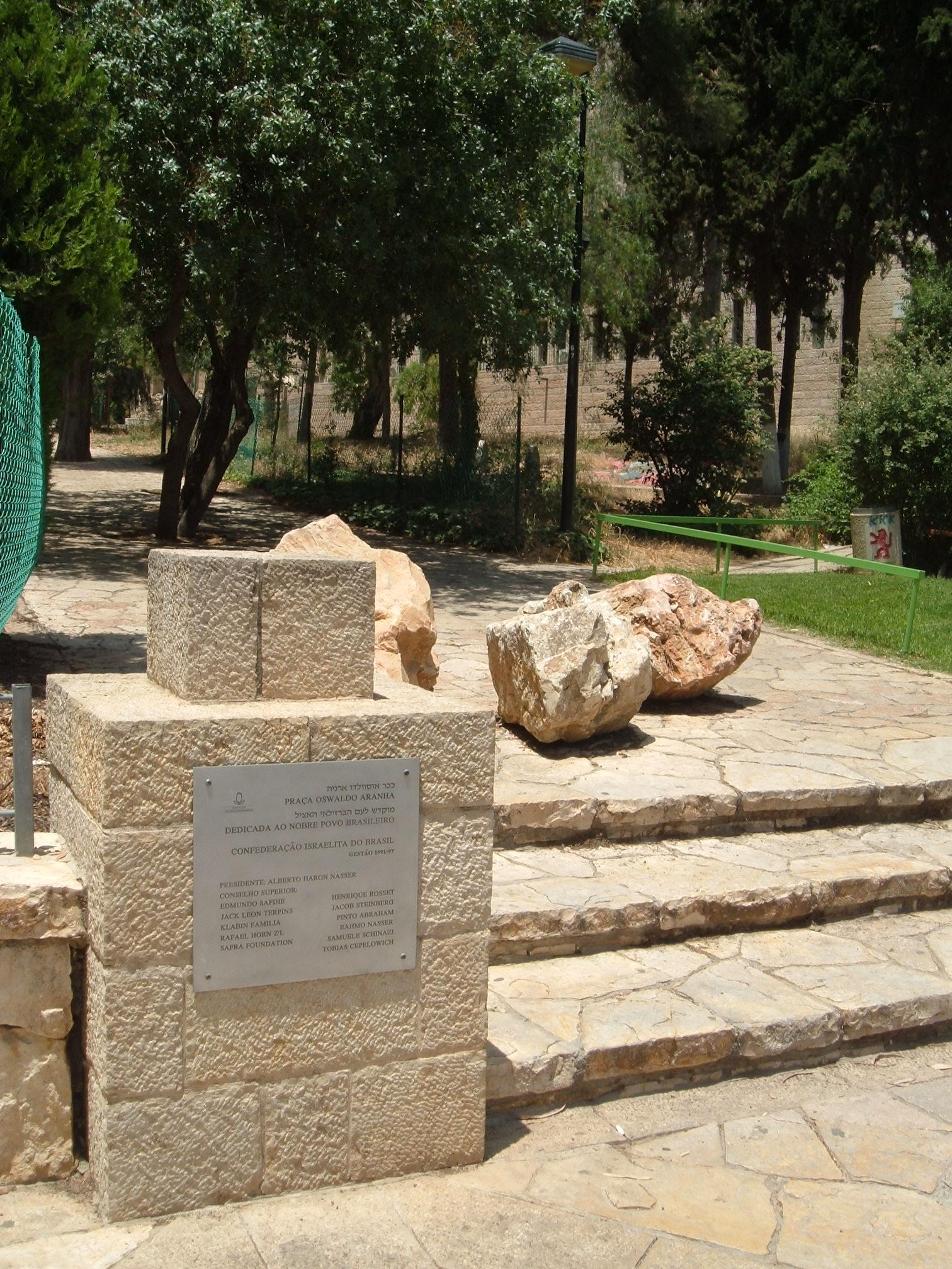 A plaque in memory of Osvaldo Aranha in Jerusalem שלט זיכרון לזכרו של אוסוולדו ארניה ב"כיכר ארניה" ברח' אגרון בירושלים